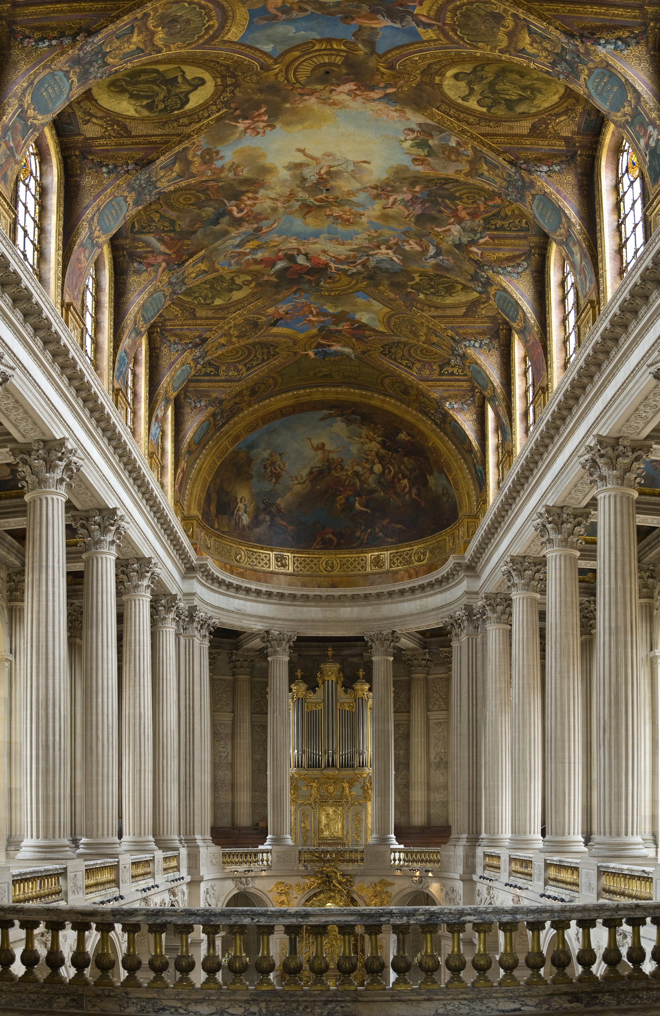 A four segment vertical panorama of the Royal Chapel of the Palace of Versailles. Taken with a Canon 5D and 24-105mm f/4L IS lens.